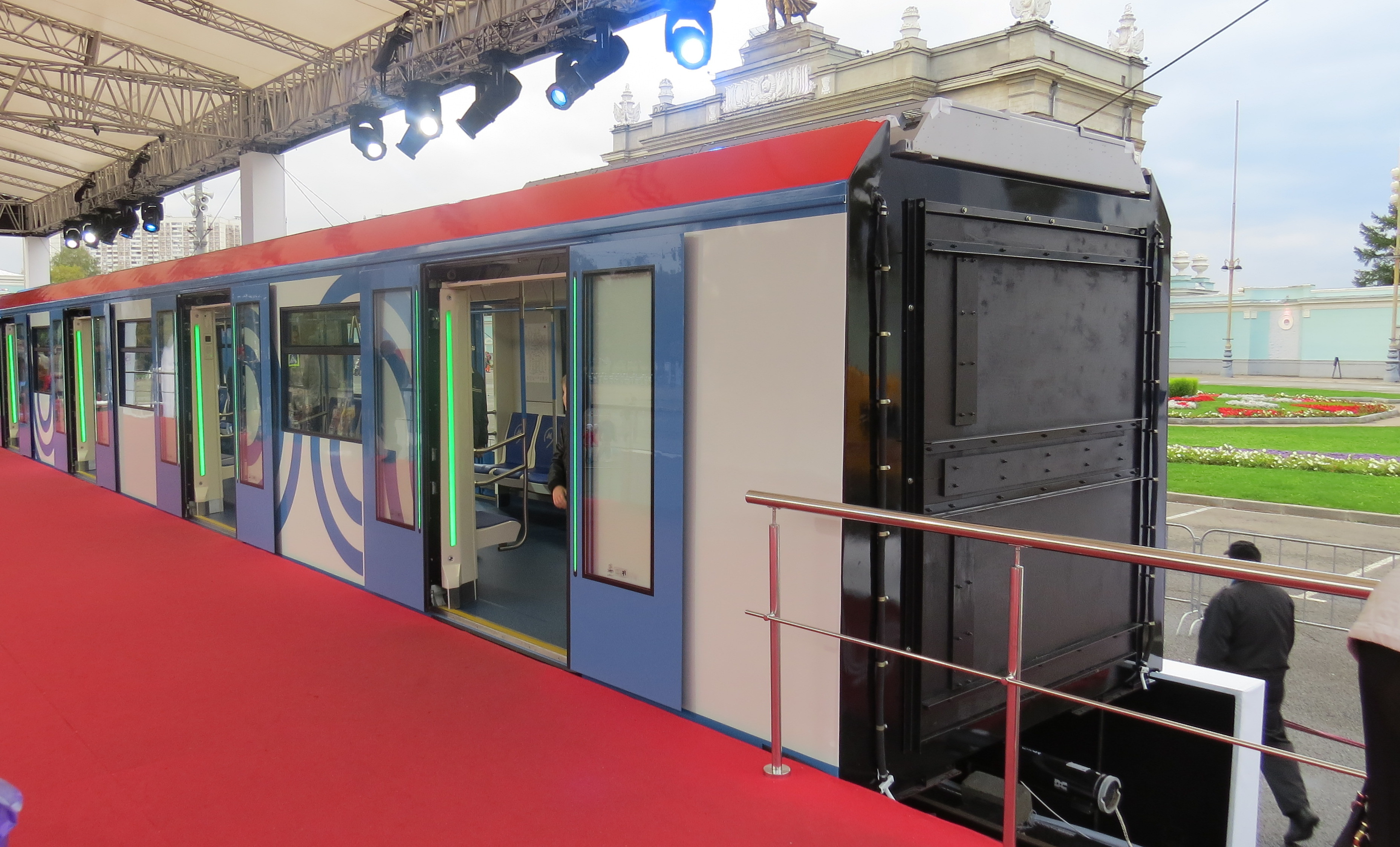 Subway car 81-765/766/767 "Moskva".